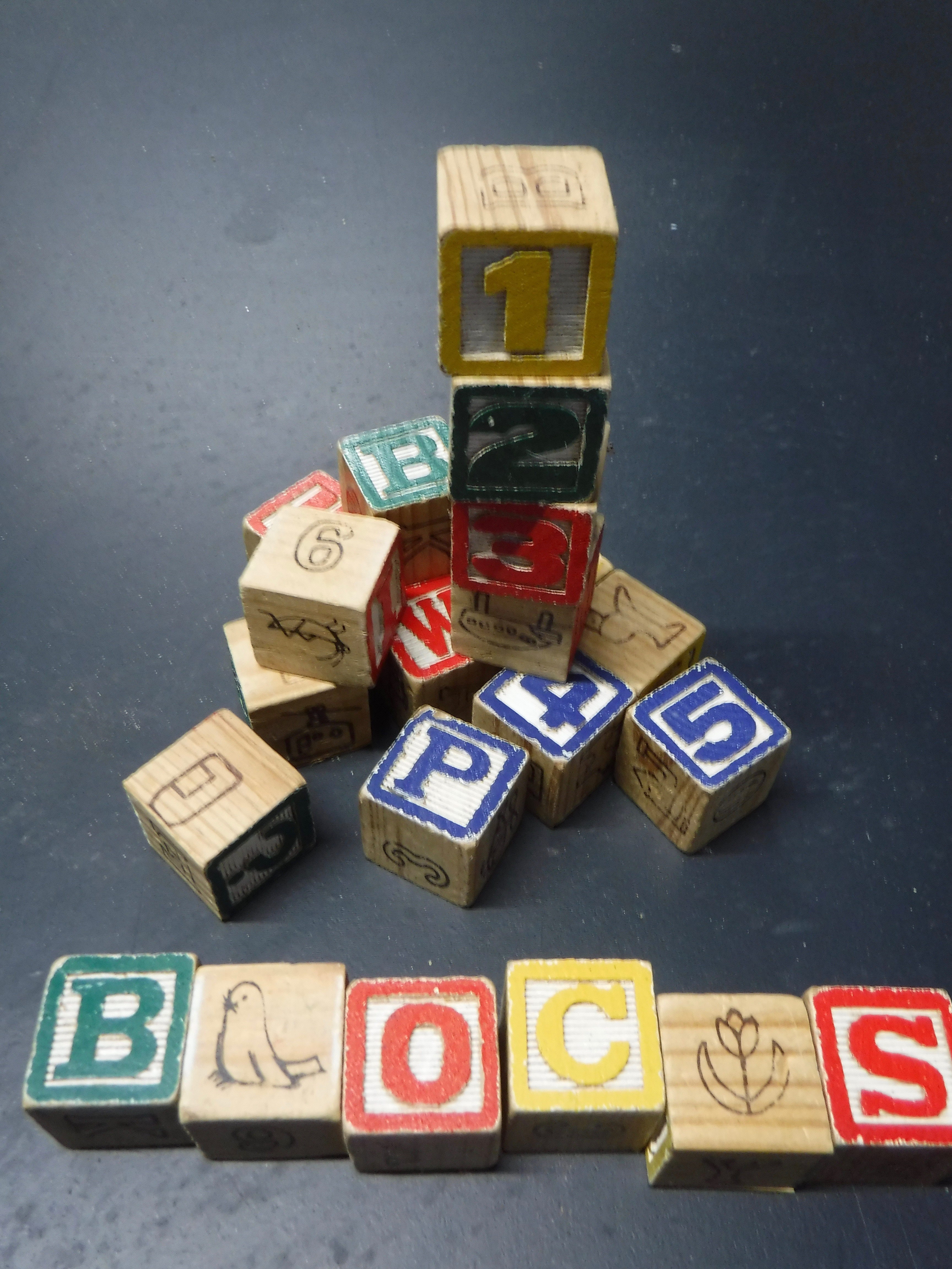 Alphabet blocks with carved and painted numbers and letters and drawings of creatures